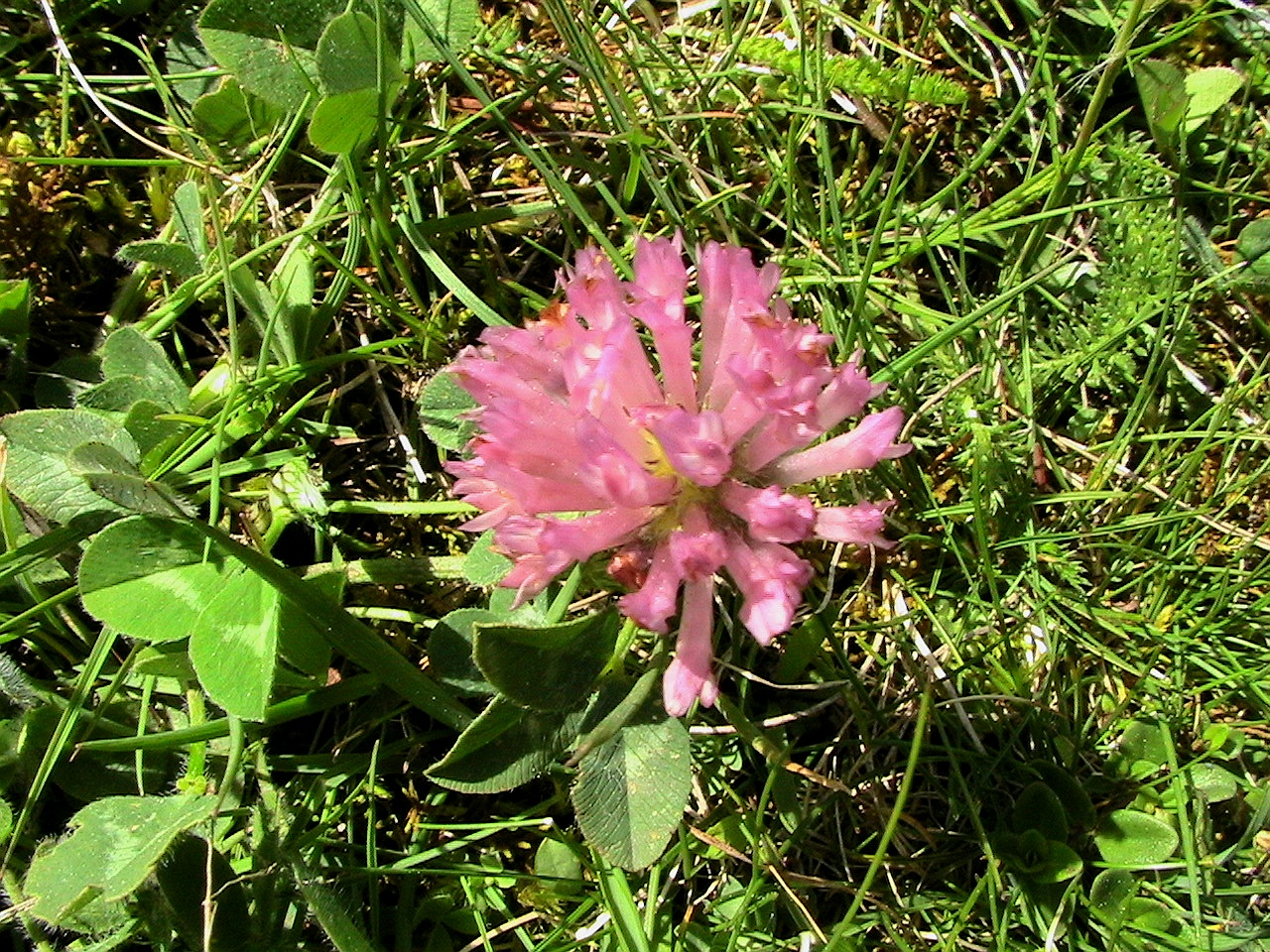 Trifolium pratense. In Guixers (Solsonès-Catalunya). To 1.430 m. altitude